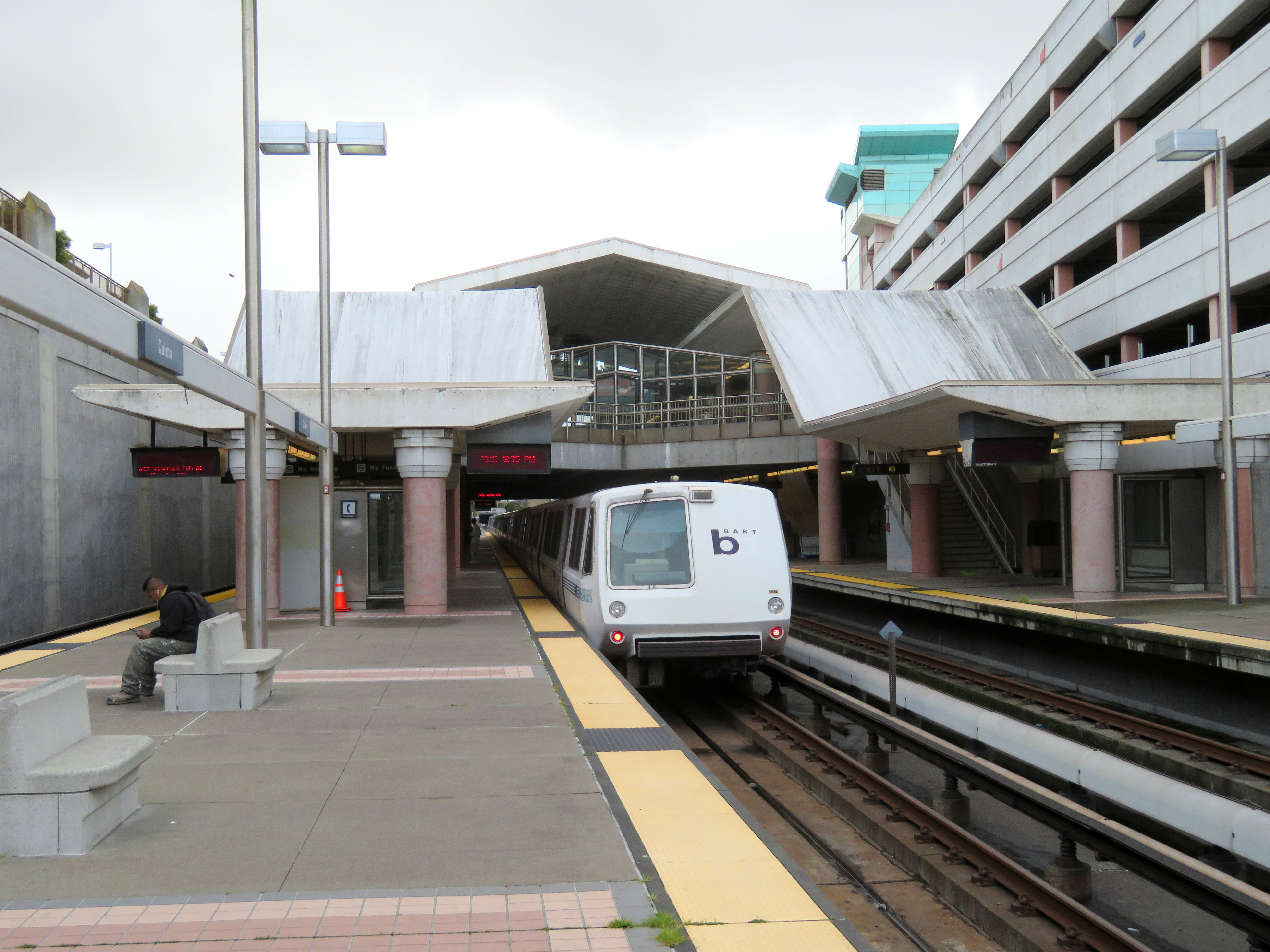 Southbound train at Colma station in March 2018